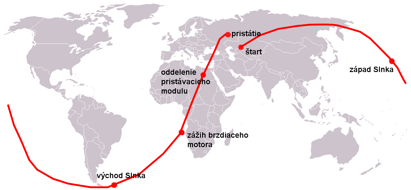 Orbital path of Vostok 1 štart - start západ Slnka - sunset východ Slnka - sunrise zážih brzdiaceho motora - ignition of braking engine oddelenie pristávacieho modulu - separation of landing module pristátie - landing